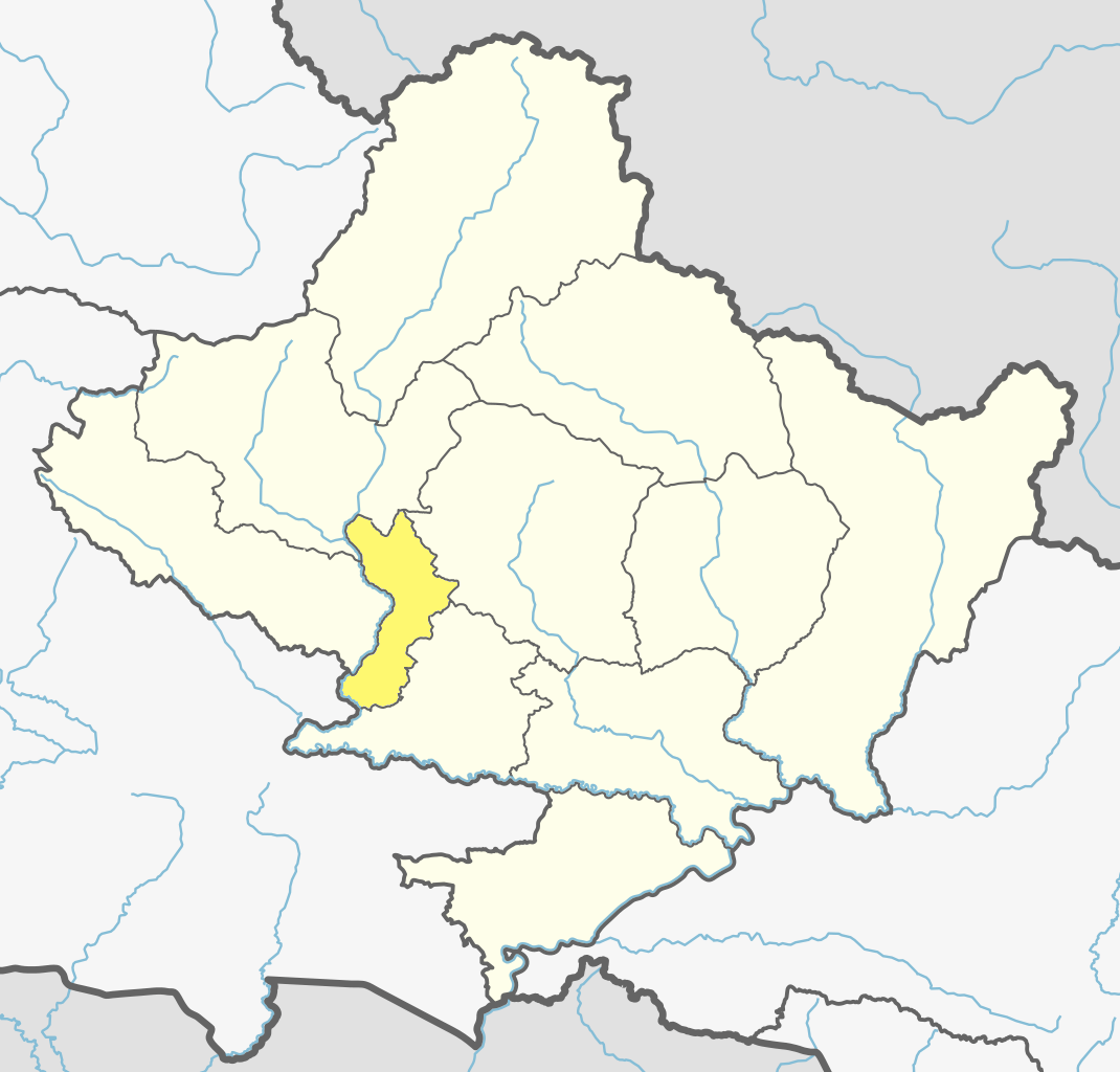 Parbat District